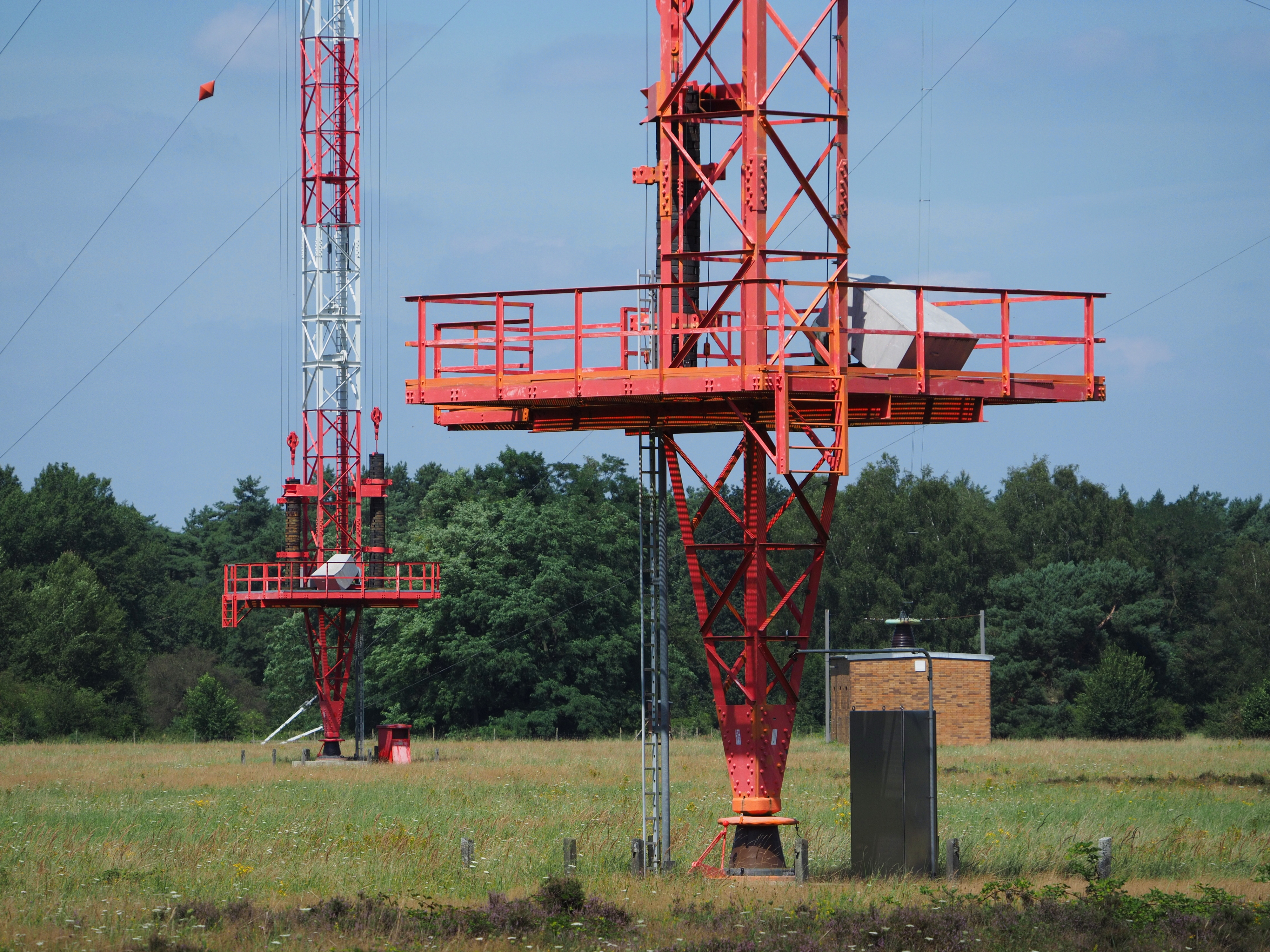 Isolated foot of DCF transmitter mast